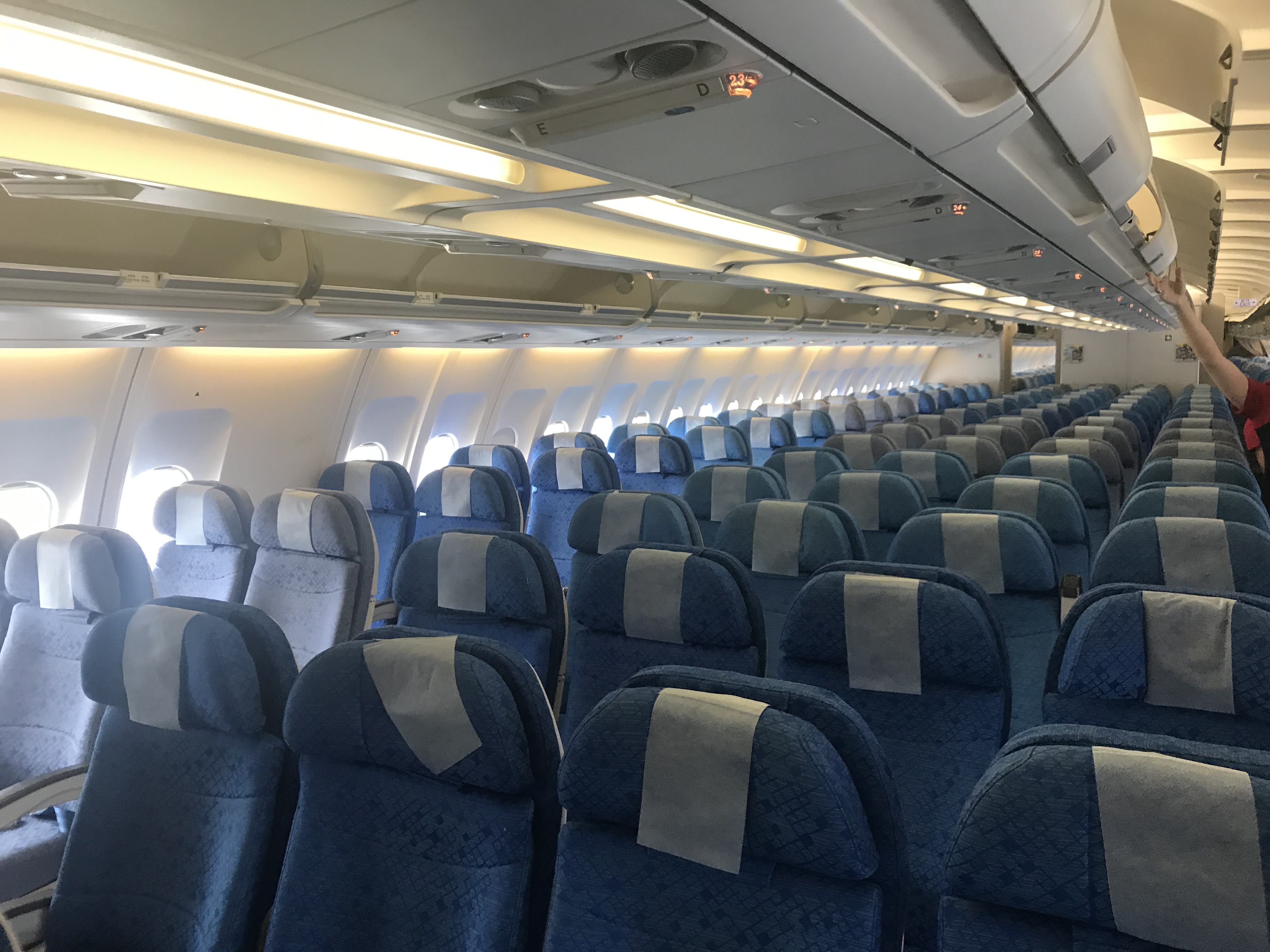 201805 Cathay Dragon Economic Cabin